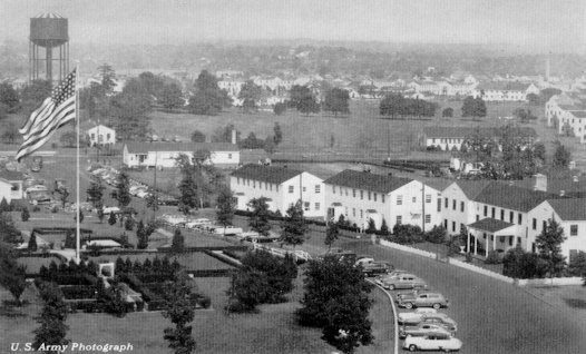 Camp Kilmer, NJ, U.S. Army Photo